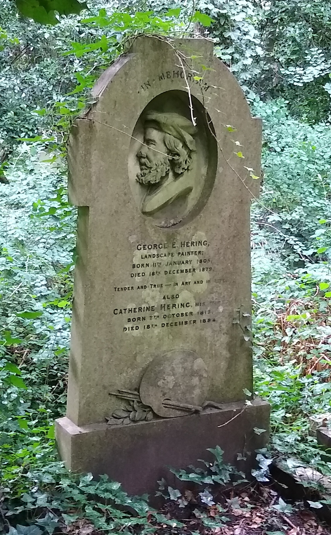 George Edwards Hering (1805-79) Painter. Studied art at the Akademie, and rose to prominence as a painter of mainly European landscapes. Exhibited frequently at the Royal Academy and the British Institution. Prince Albert was among those who bought his work.